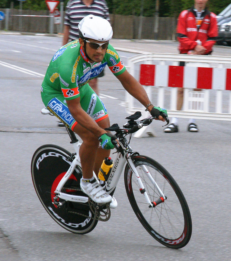 Guillermo Rubén Bongiorno (ARG) during Tour of Denmark/Post Danmark Rundt 2009, stage 5 (timetrial 15,5 km)